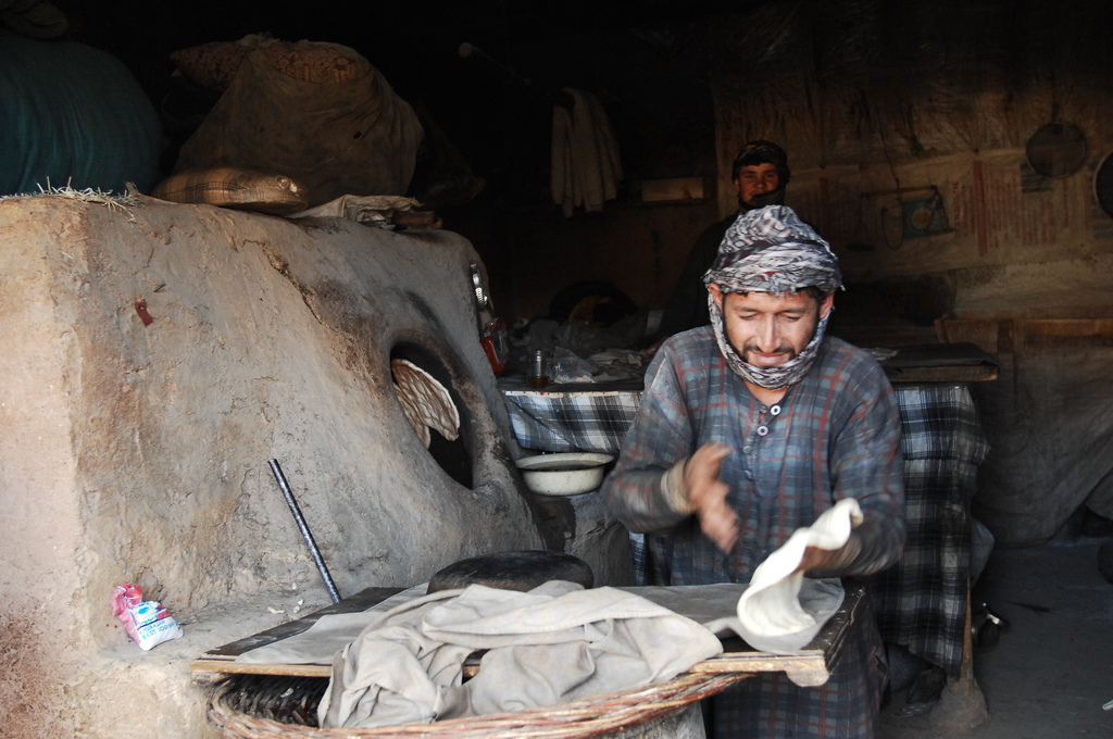 Preparing nan bread for the oven. Photo by Iain Cochrane of Scotland, the United Kingdom.